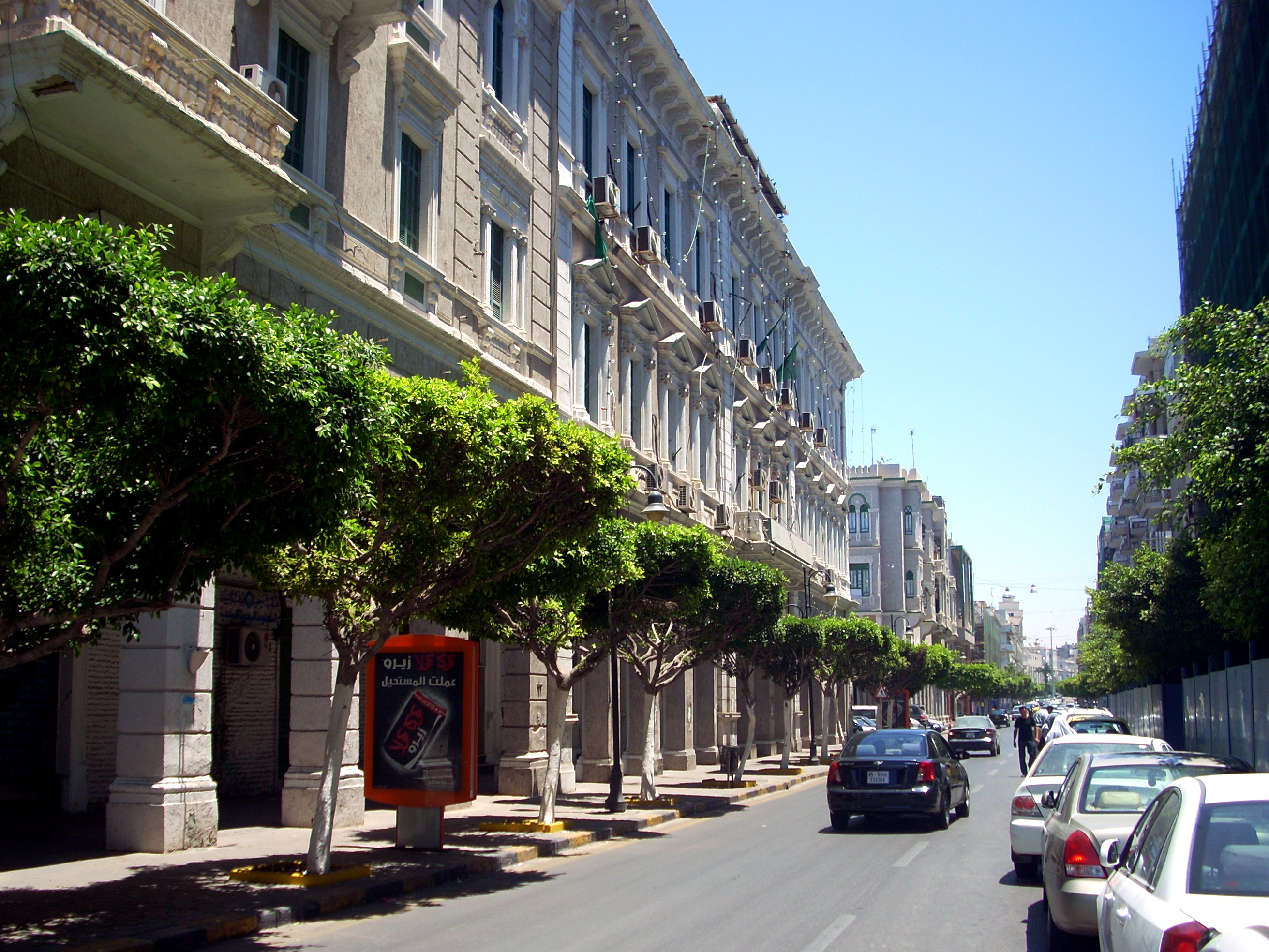 Istiqlal Street in Tripoli off Shuhada Square has some of the most decorative Italianate facades in Tripoli.